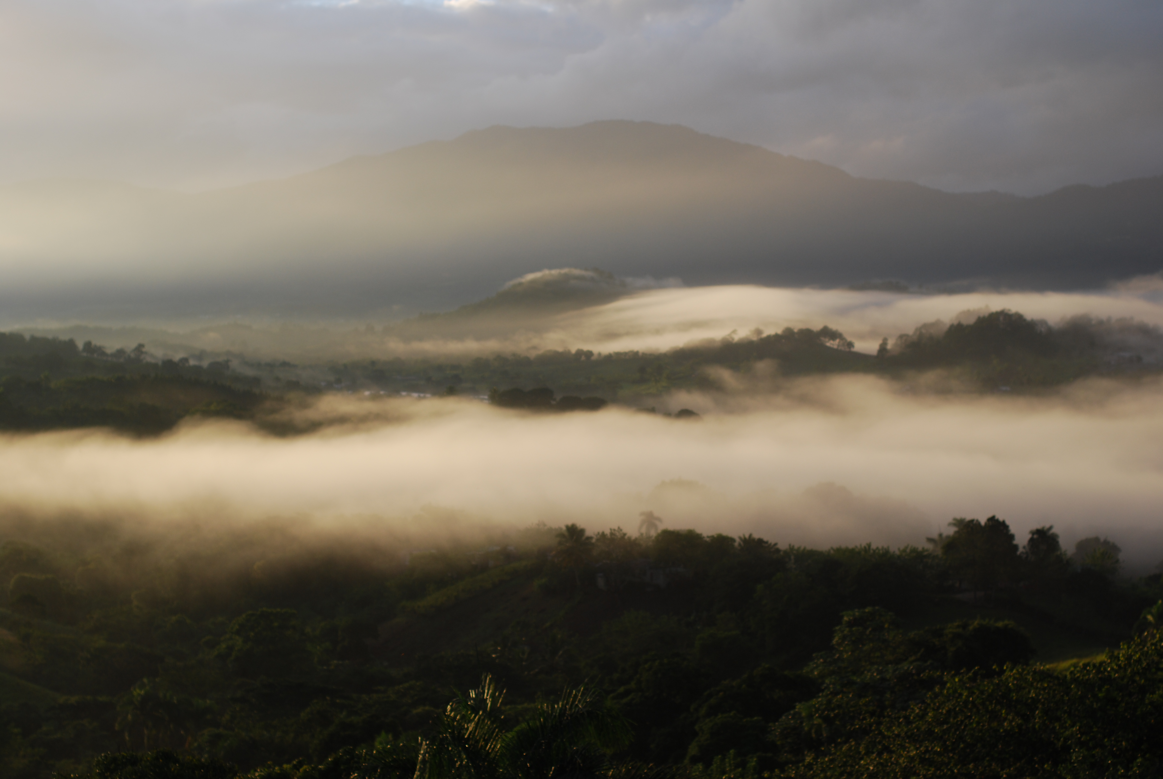 Foggy scenic view of Dominican Mountains, Cordillera Central